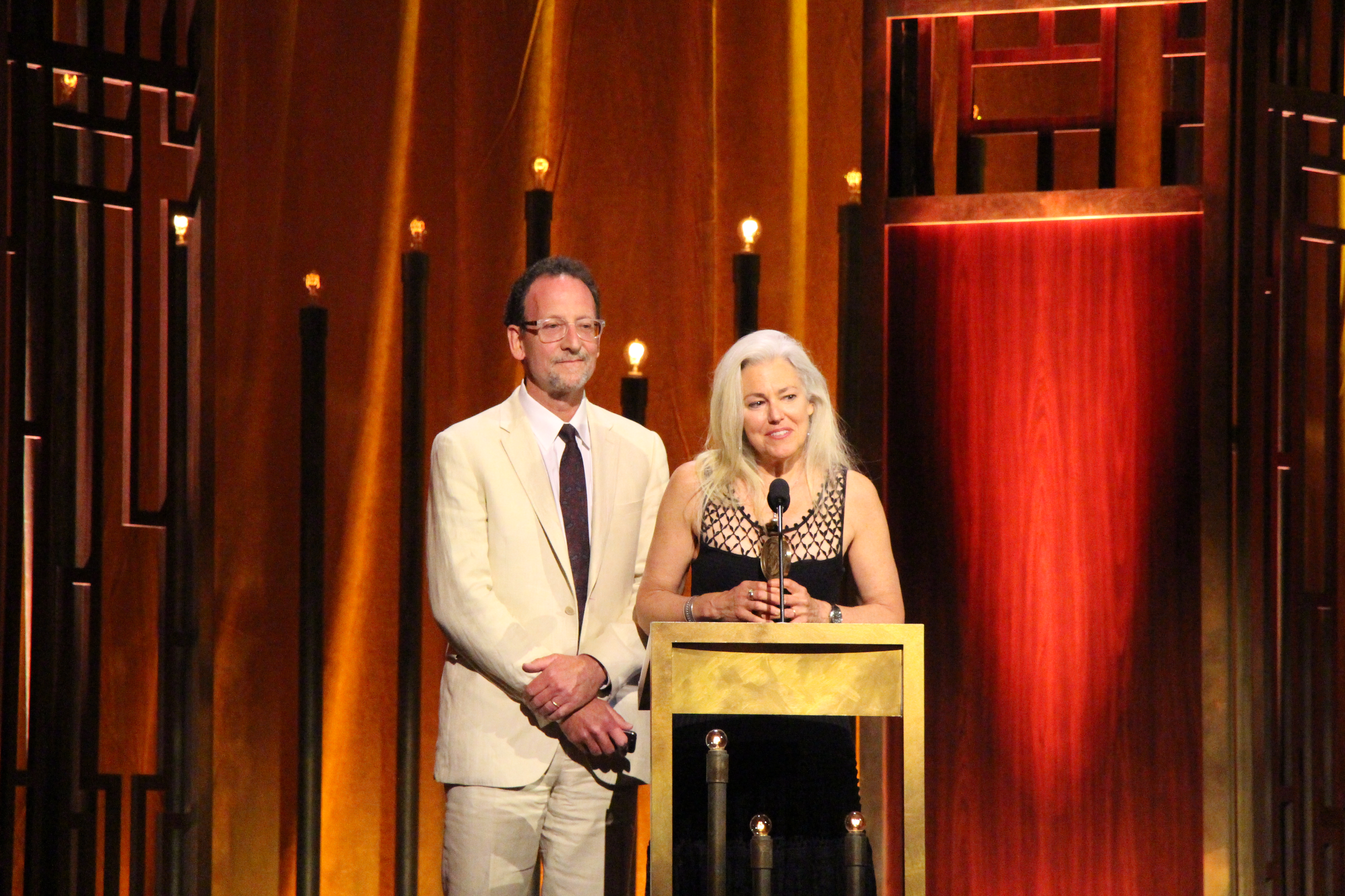 Co-Directors and Co-Producers David Heilbroner and Kate Davis accept the Peabody for The Newburgh Sting. Cipriani Wall Street